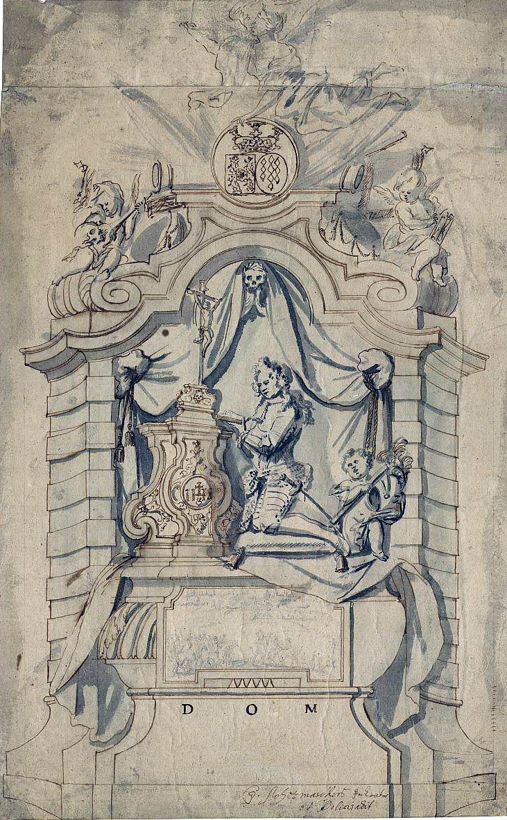 Design sketch for the grave monument of Charles Florentin of Salm (1638-1676), designed by the Flemish sculptor Pieter Scheemaeckers (1640–1714) for the church of Hoogstraten, Belgium. Collection: Museum Plantin-Moretus, Antwerp, object nr. AV.3373.03-25.